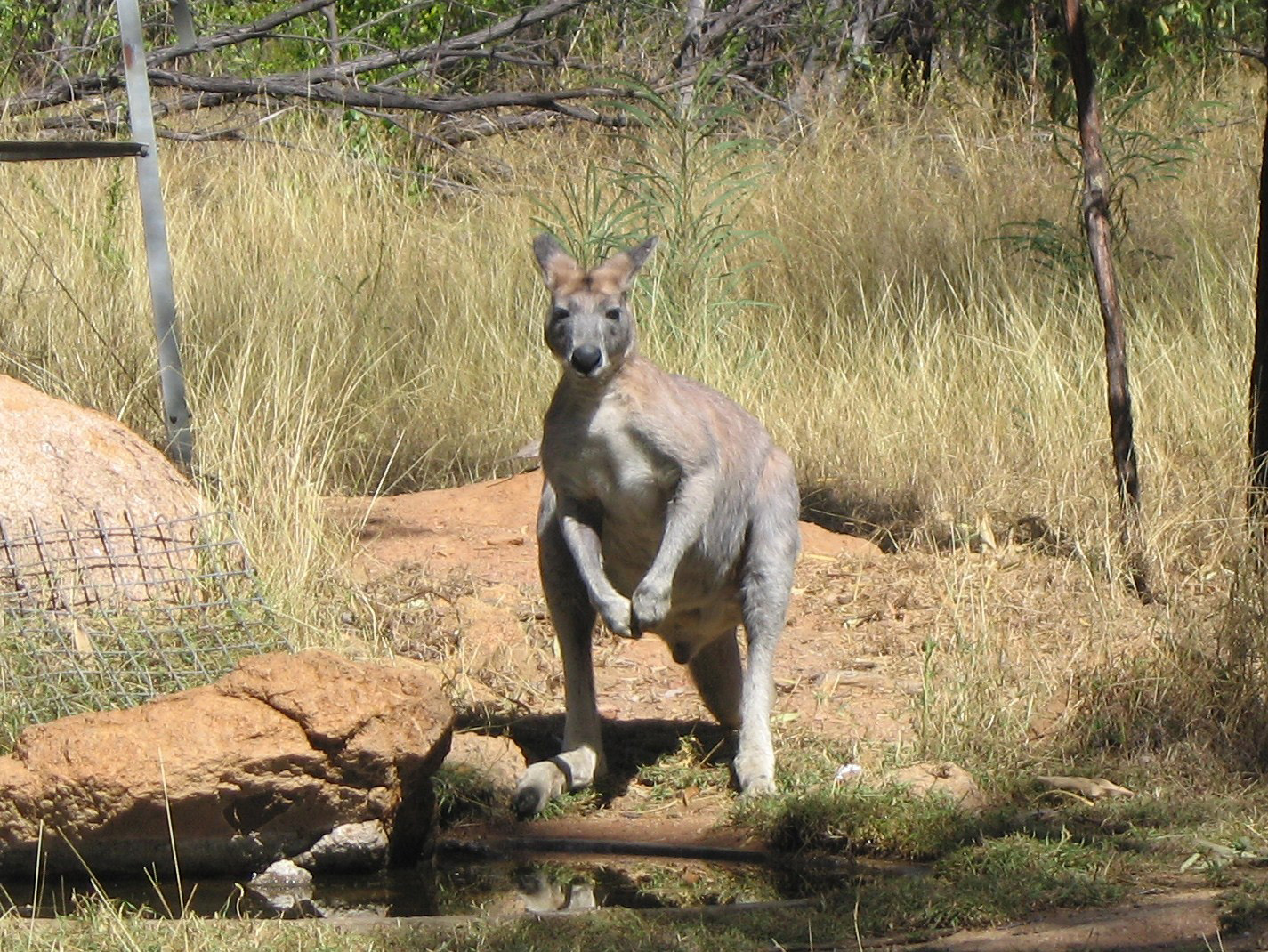 Antilopine Wallaroo, Macropus antilopinus